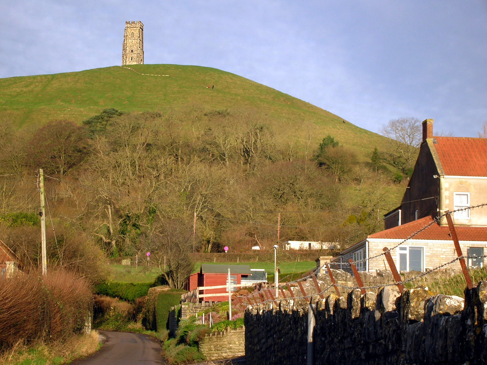 Glastonbury Tor